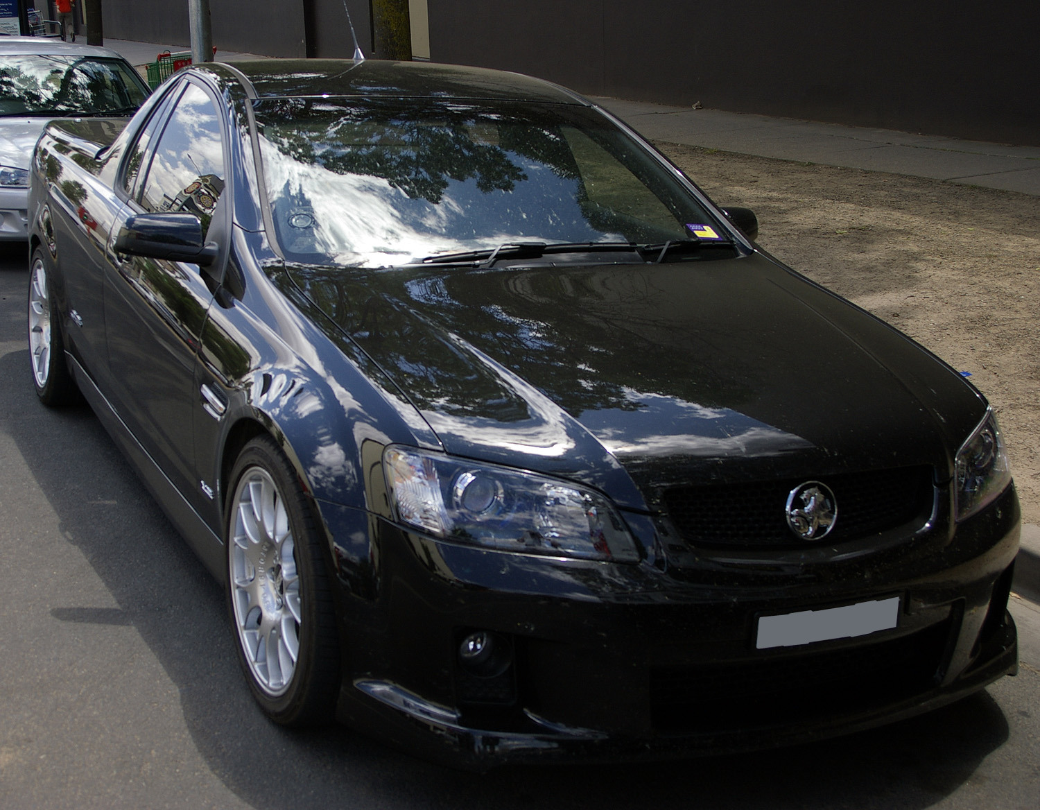 2007–2008 Holden VE Ute SS V8.